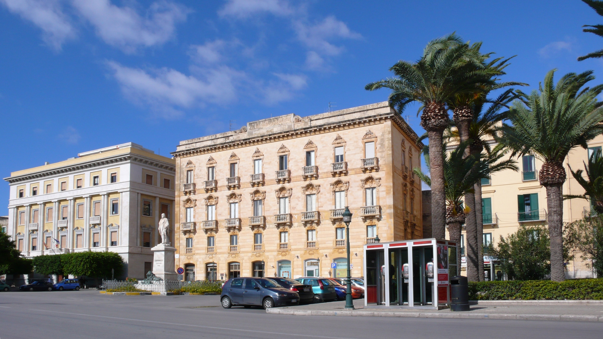 Piazza Garibaldi in Trapani, Sicilia